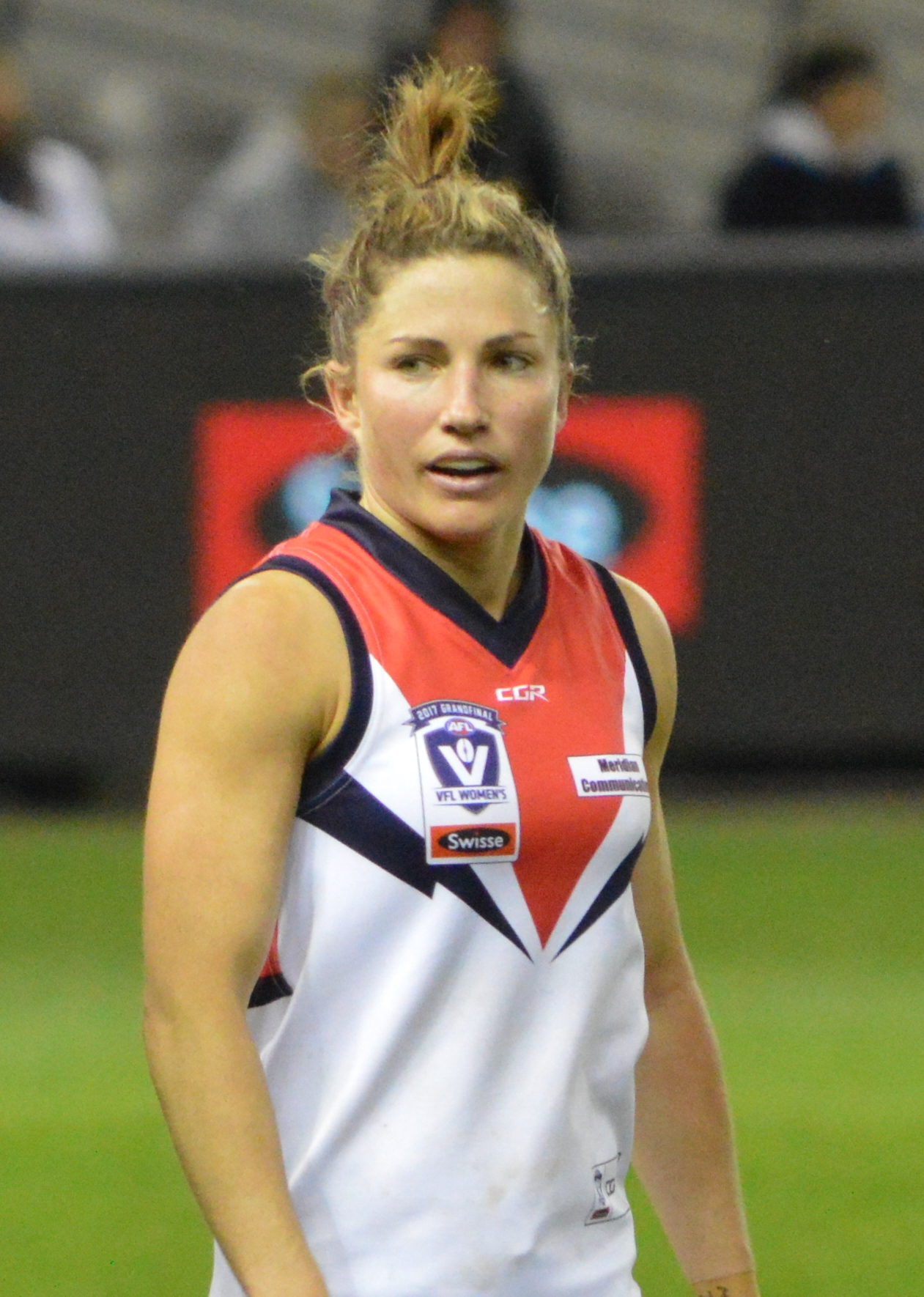 Melissa Hickey during the 2017 VFL Women's Grand Final.